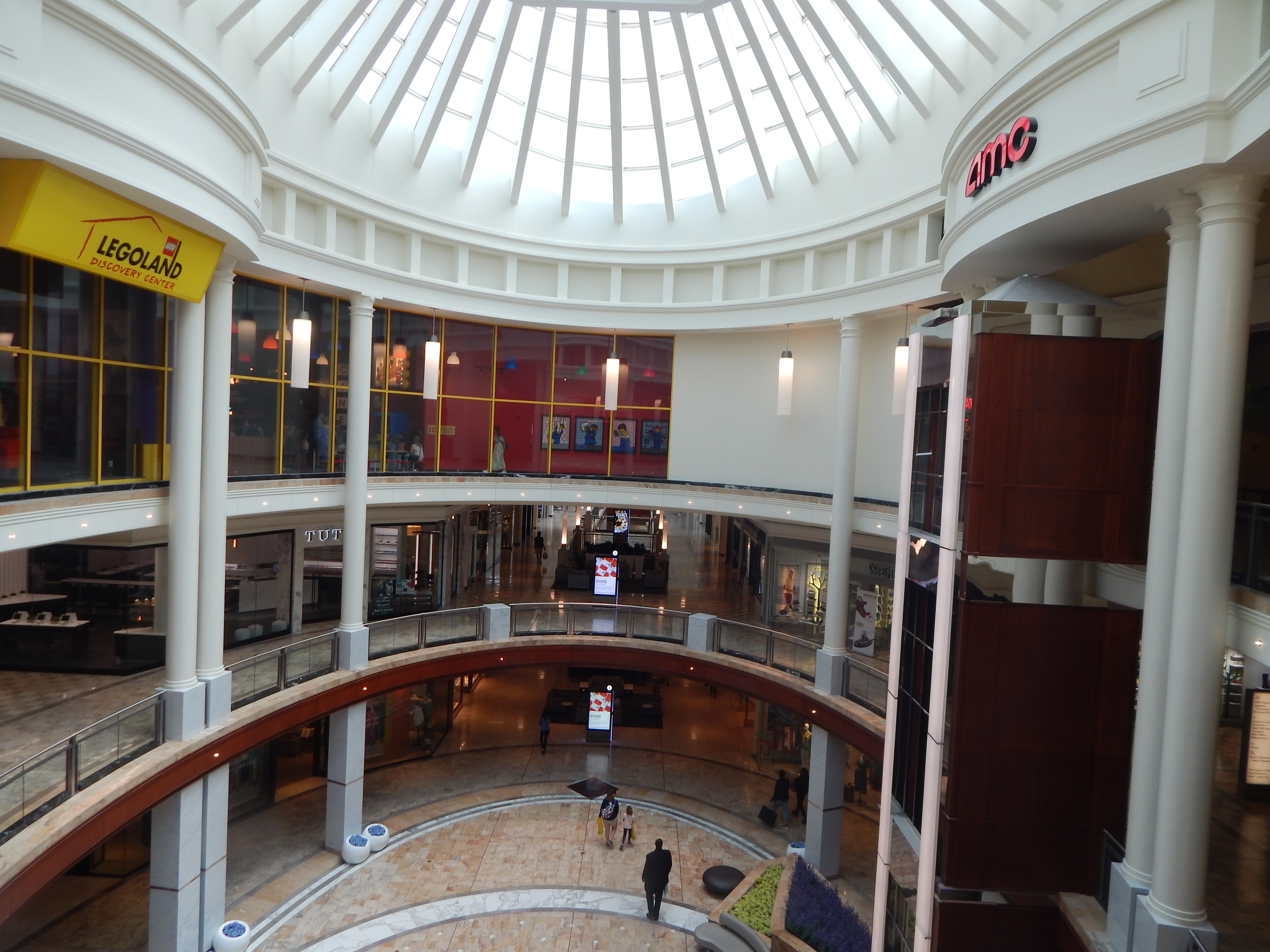 The Monarch Court